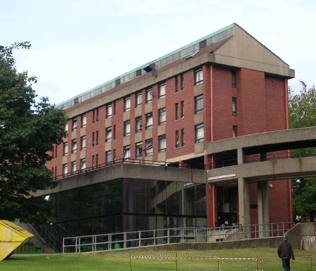 Charles Morris Hall - Mary Ogilvie House - Leeds University